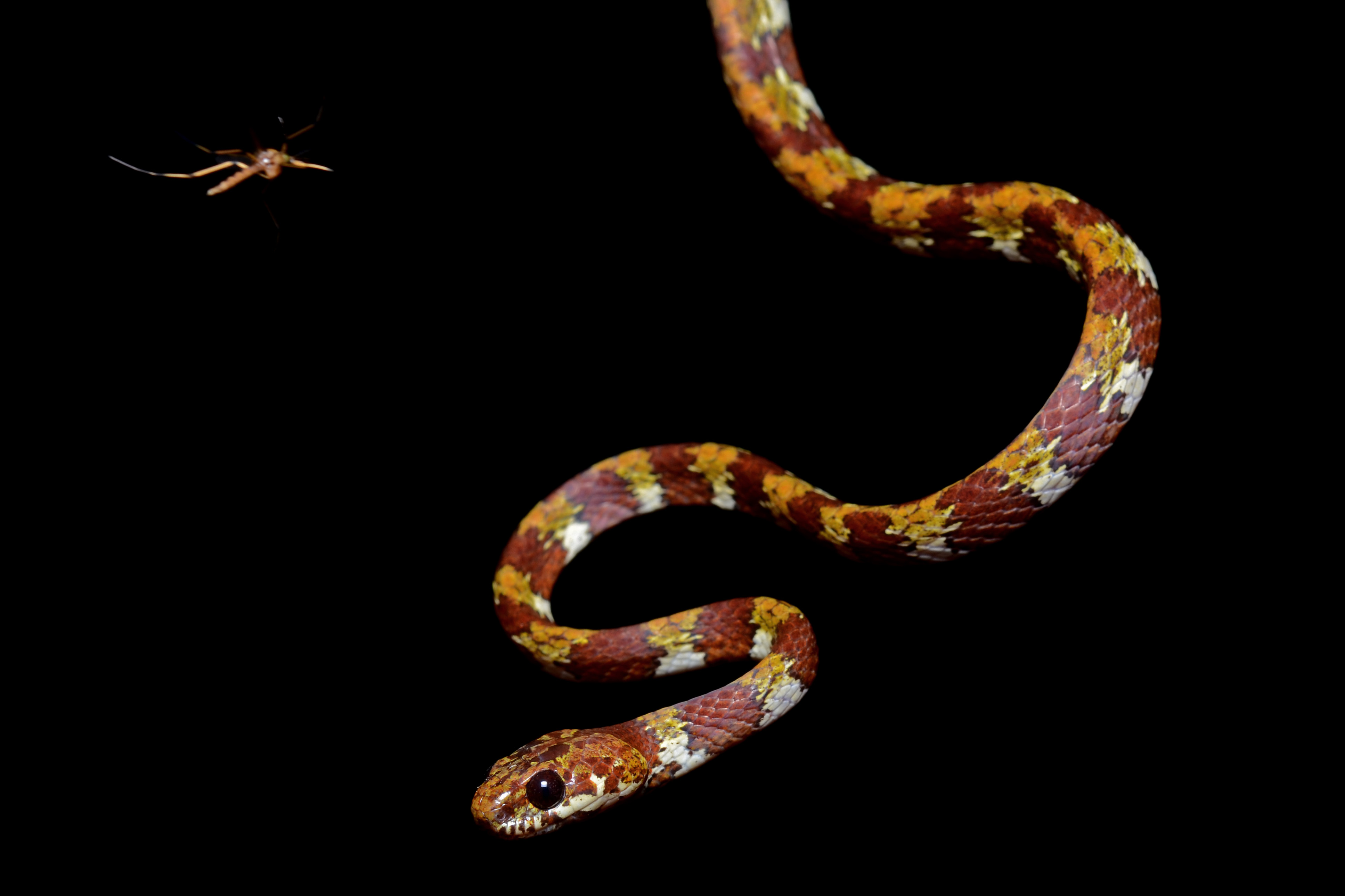 A Stejneger's snail-sucker (Sibon longifrenis) at La Selva Biological Station, Sarapiqui, Costa Rica.